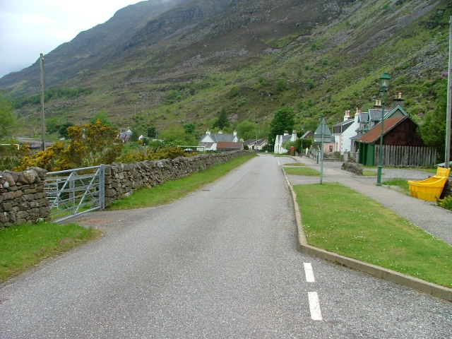 Fasag In Torridon.